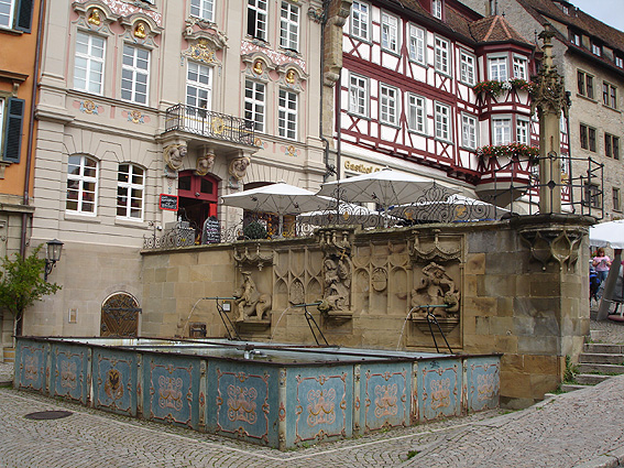 gothic well and pillory (early 16th century) at the market square, showing Simson, St Michael and St George